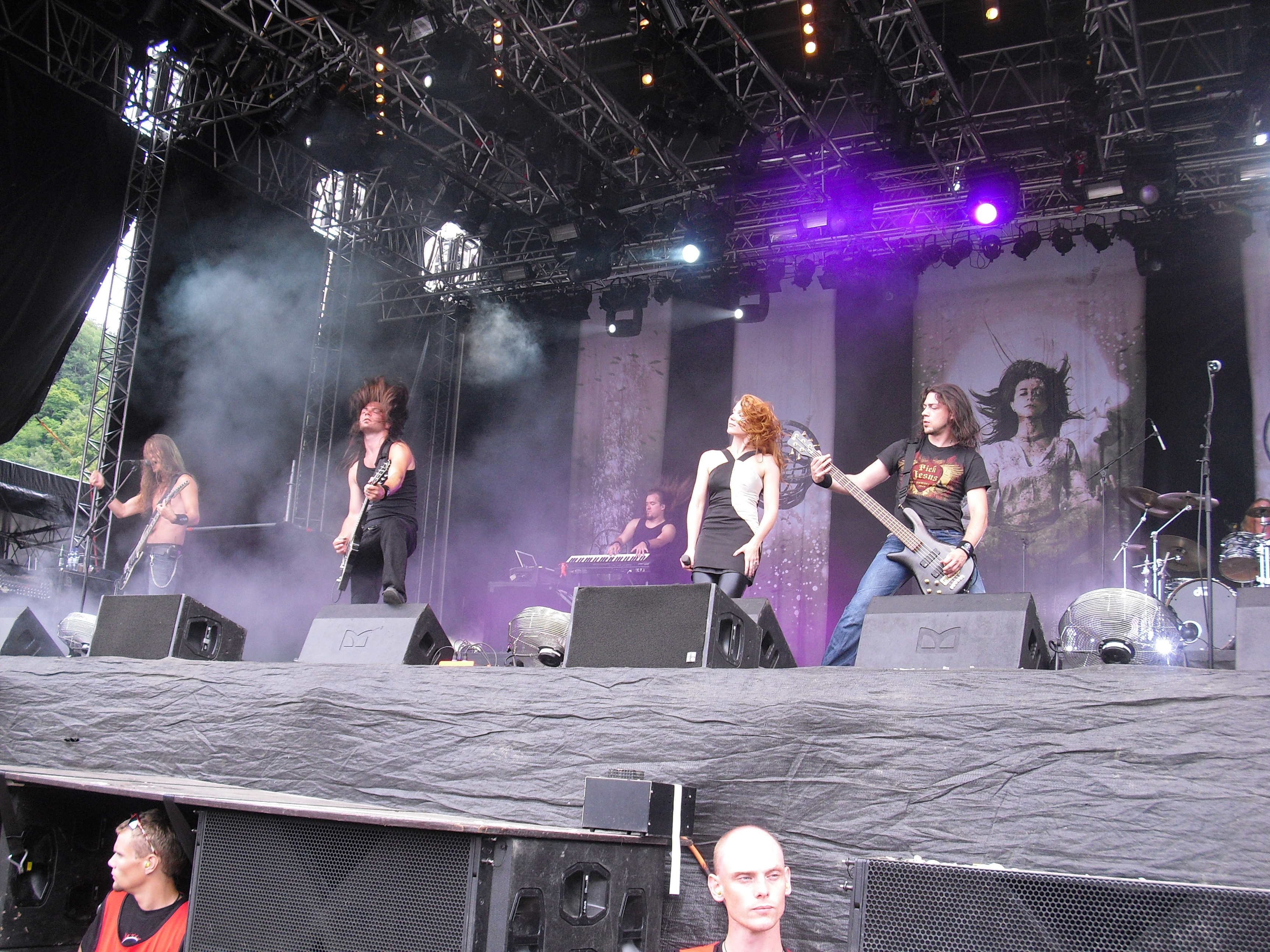 Epica performing live at Norway Rock Festival in July 2010